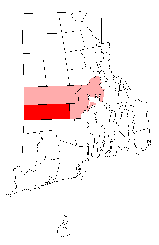 Location of West Greenwich in Rhode Island